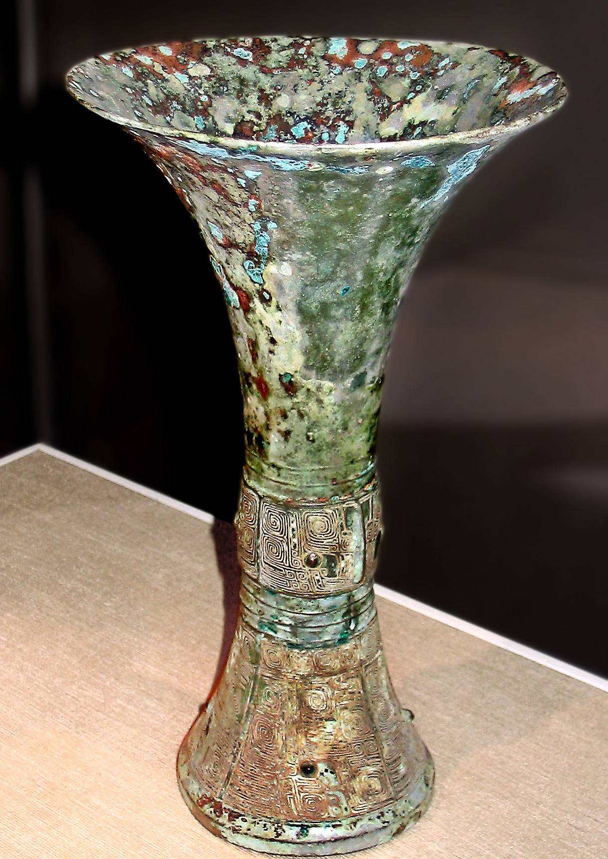 This bronze ritual wine vessel was made in the 13th century BC, in the Shang Dynasty of China. It is housed in the Arthur M. Sackler Gallery in the Smithsonian, Washington, D.C.